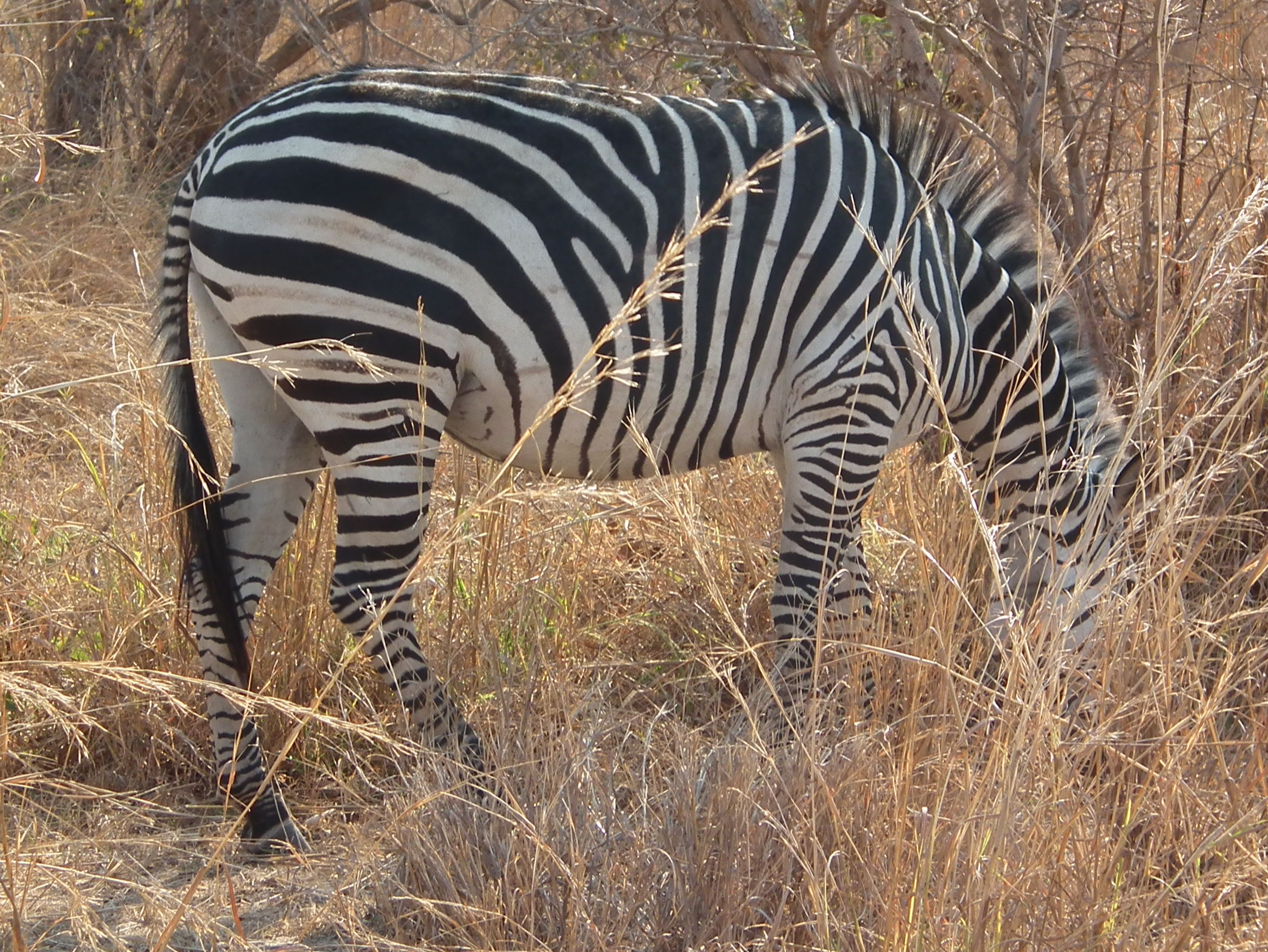 Crawshay's Zebra (Equus quagga crawshayi) showing the shadow stripes that sometimes occur in this subspecies of plains zebra